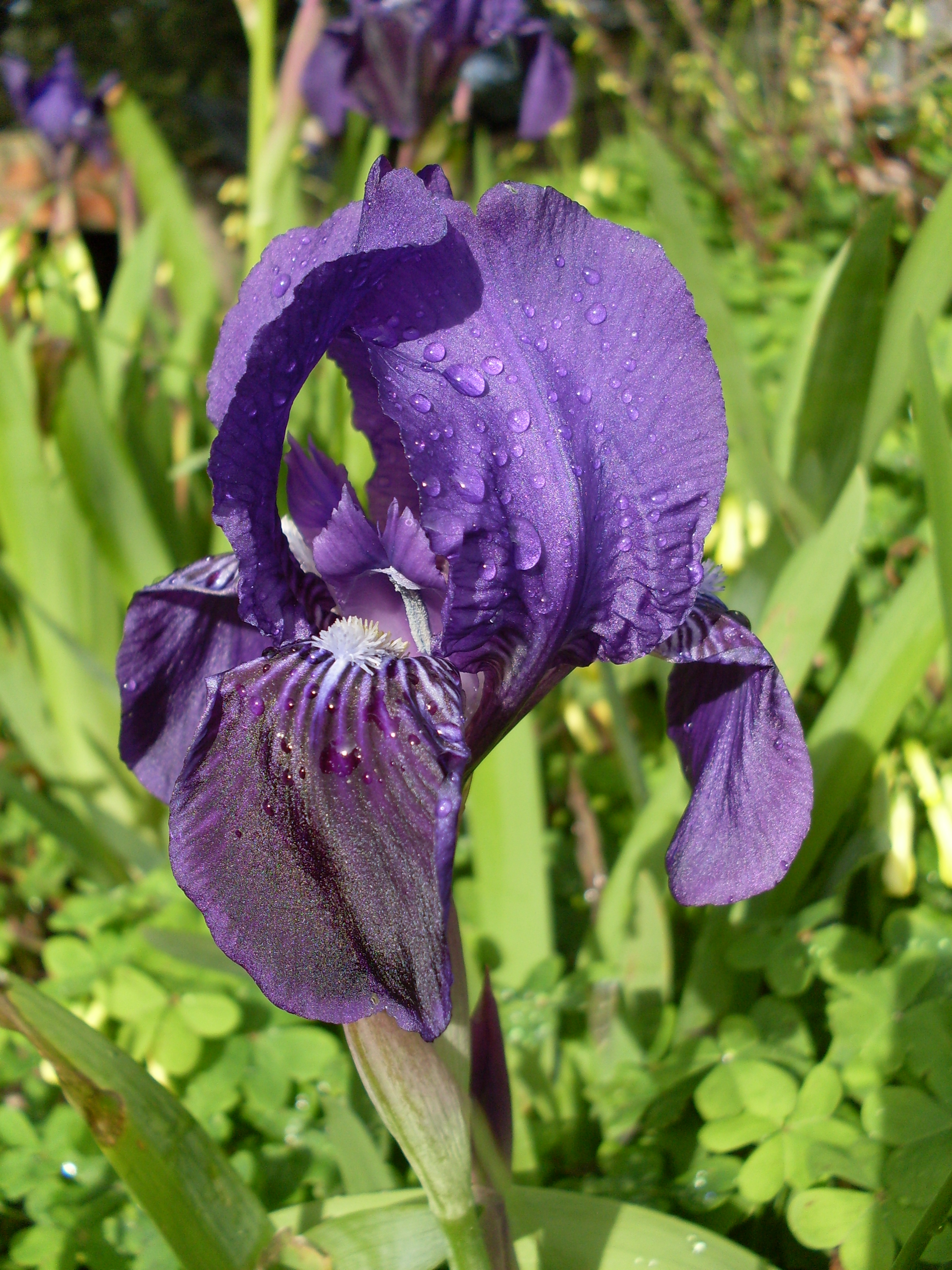 Iris